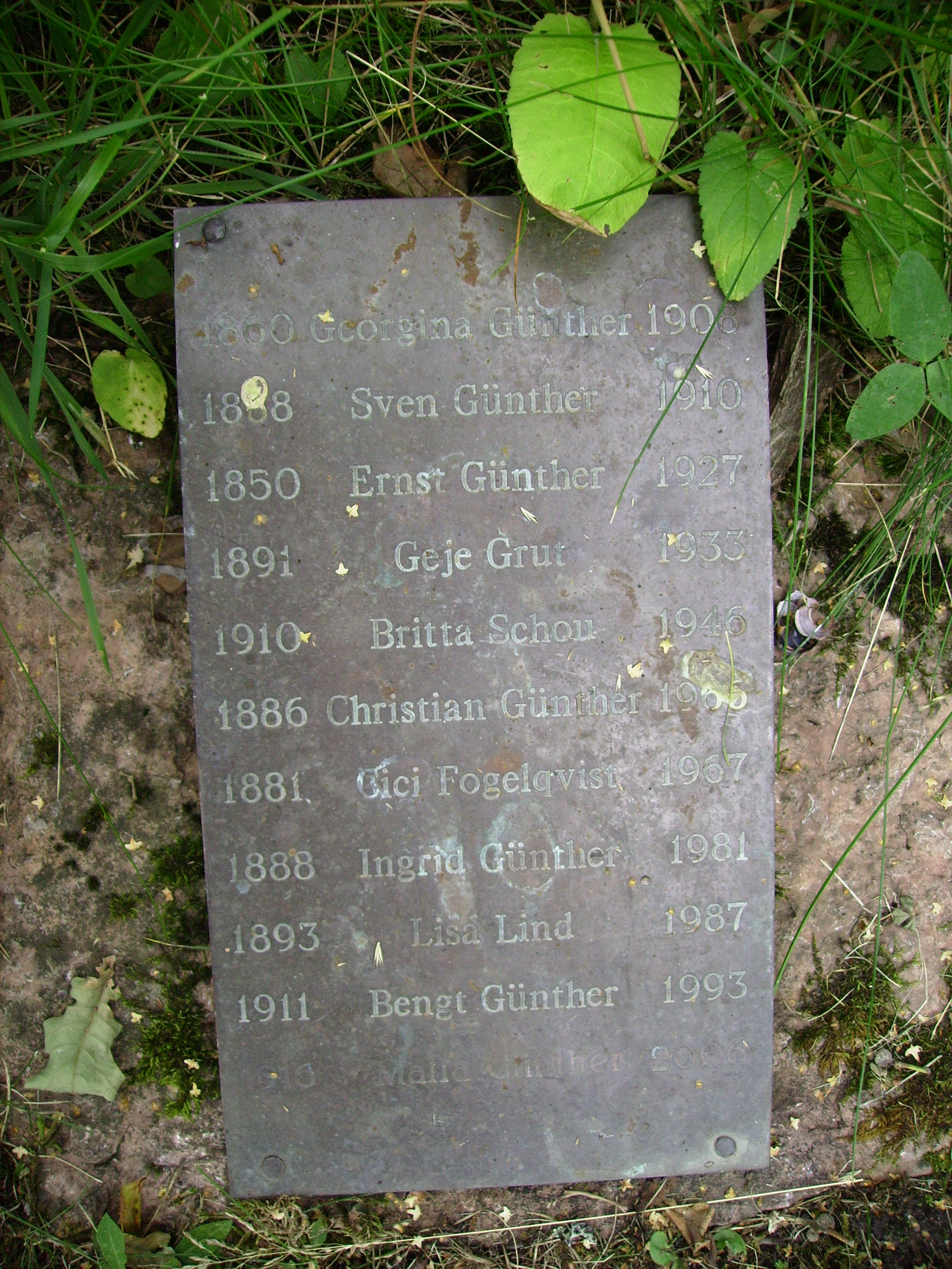 Picture of Christian Günther's grave at Djursholms burial ground